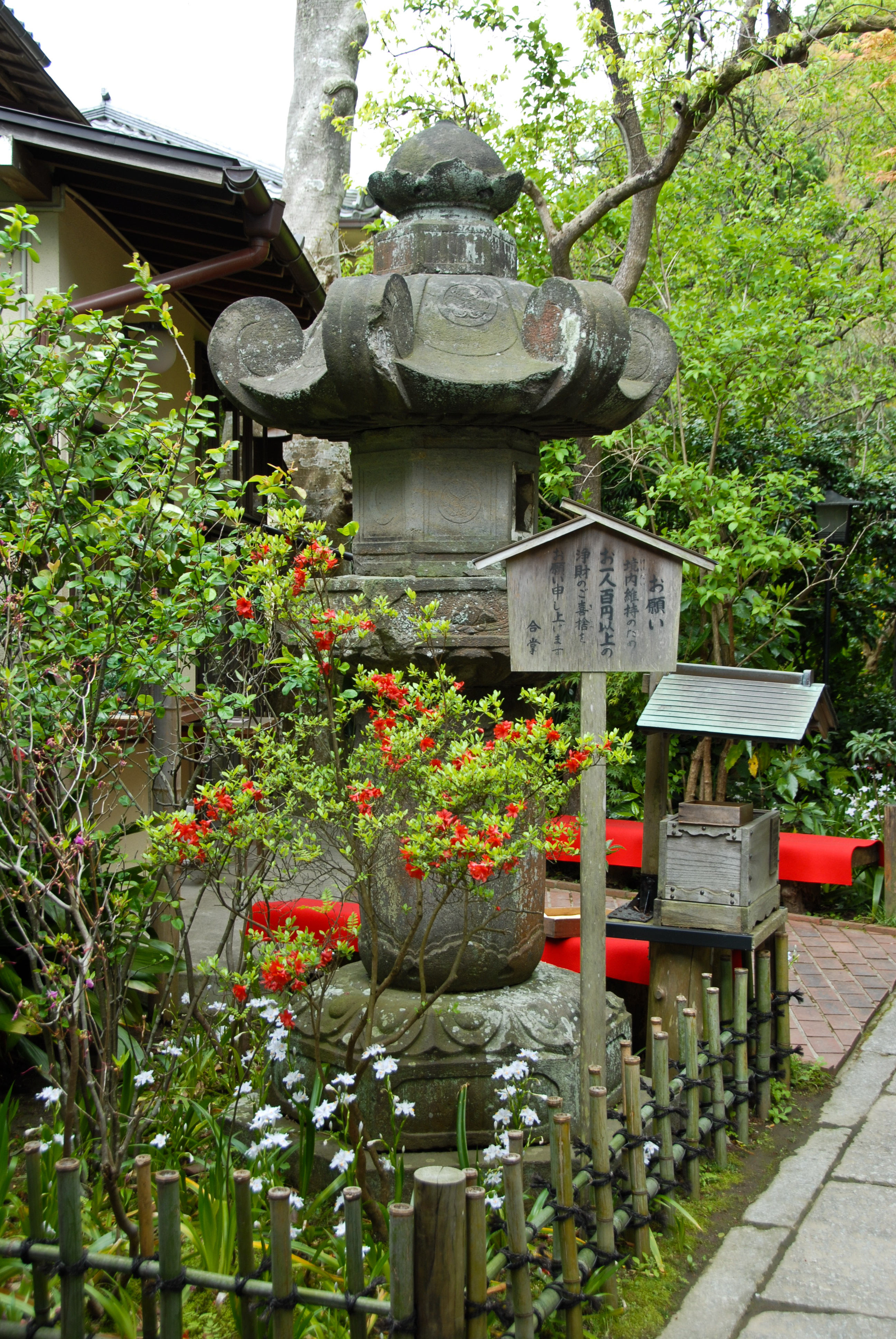 A stone lantern at the entrance of Ankokuronji